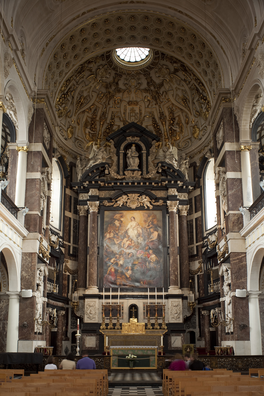 church, baroque